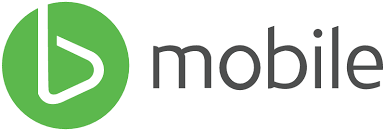 Bmobile Logo Rebrand